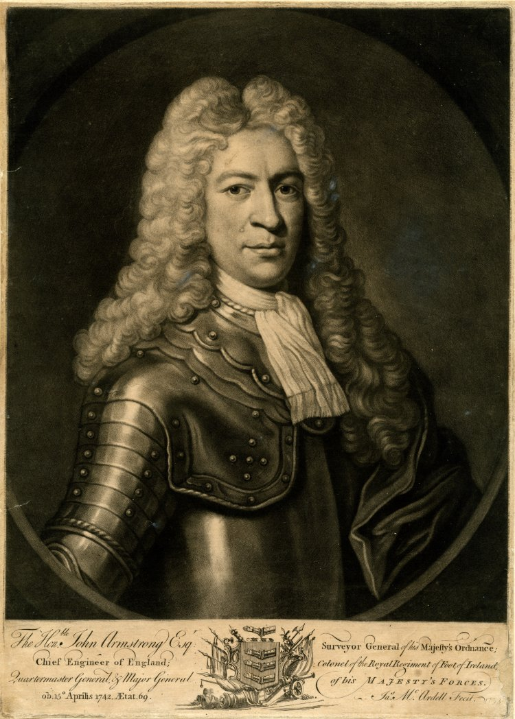 "The Hon'ble John Armstrong, Esqr,". Courtesy of the British Museum.